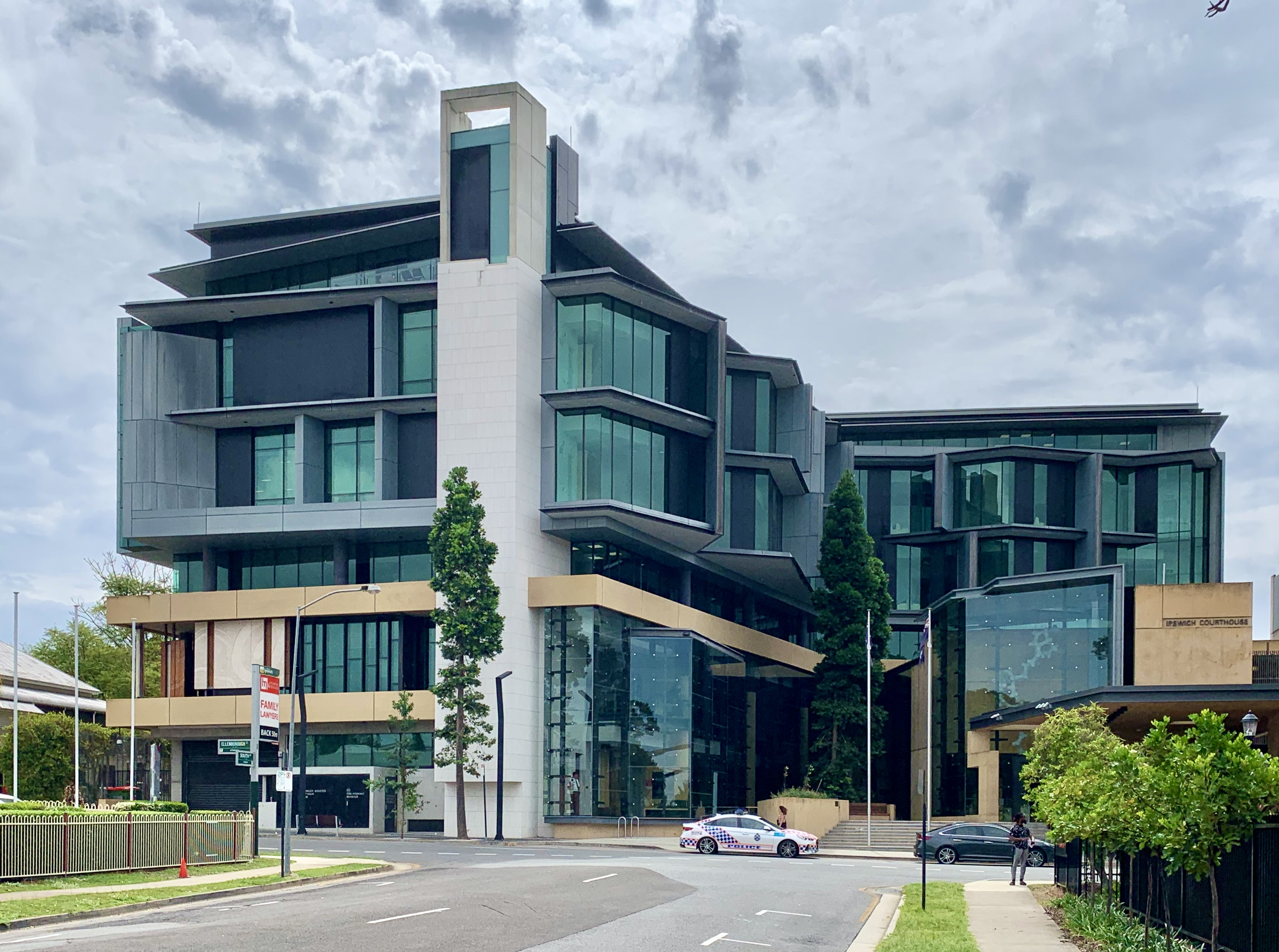 Ipswich Court House, Queensland, 2020